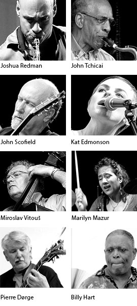 Joshua Redman, John Tchicai, John scofield, Miroslav Vitous, Mrilyn Mazur, Pierre Dørge and Billy Hart at Aarhus Jazz Festival